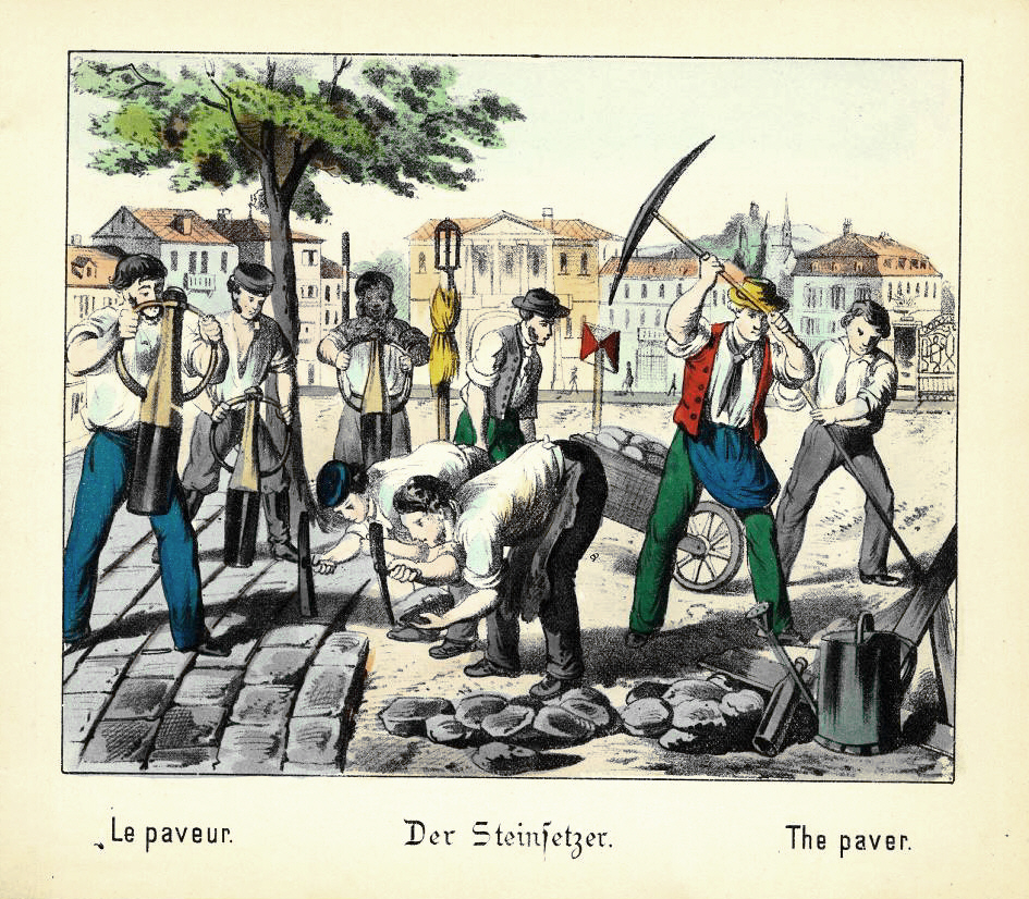 The paver